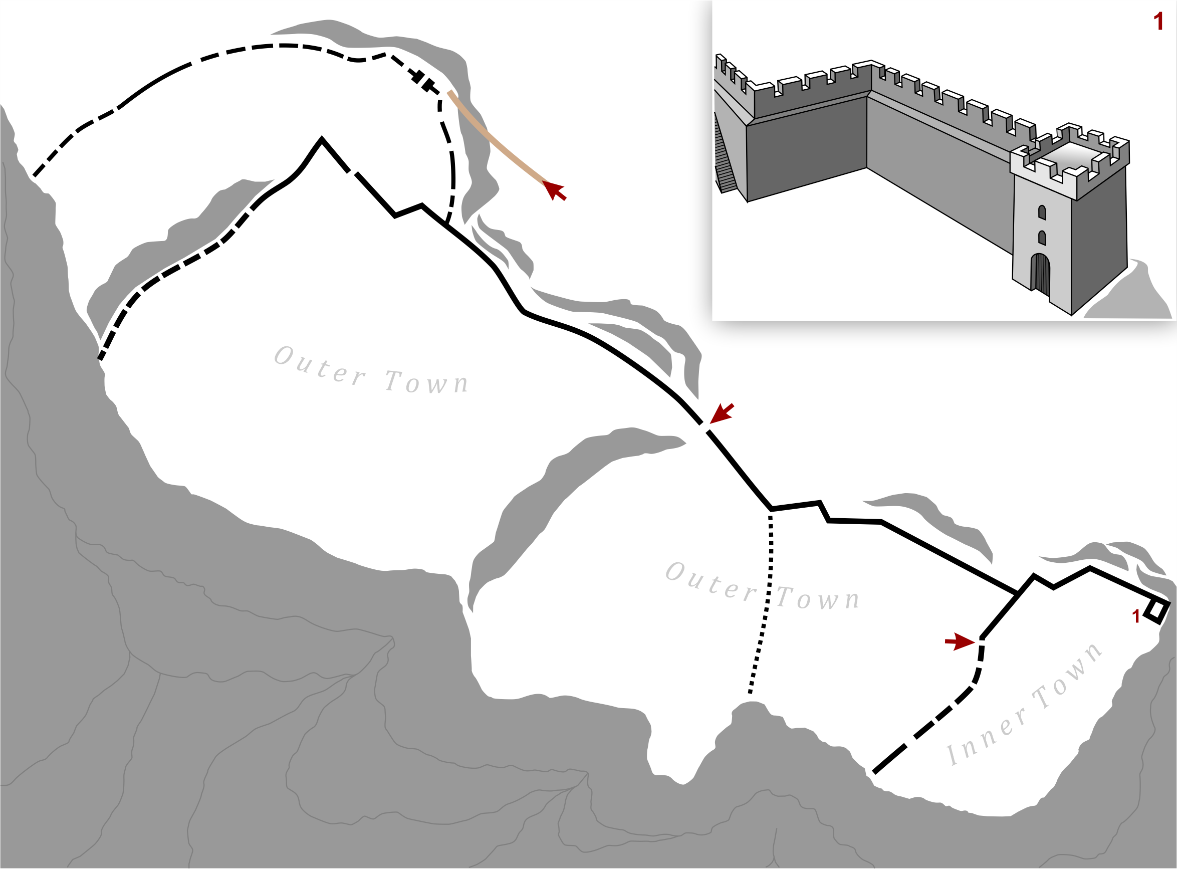 Plan of the medieval Bulgarian fortress Devol. Based on: [1]